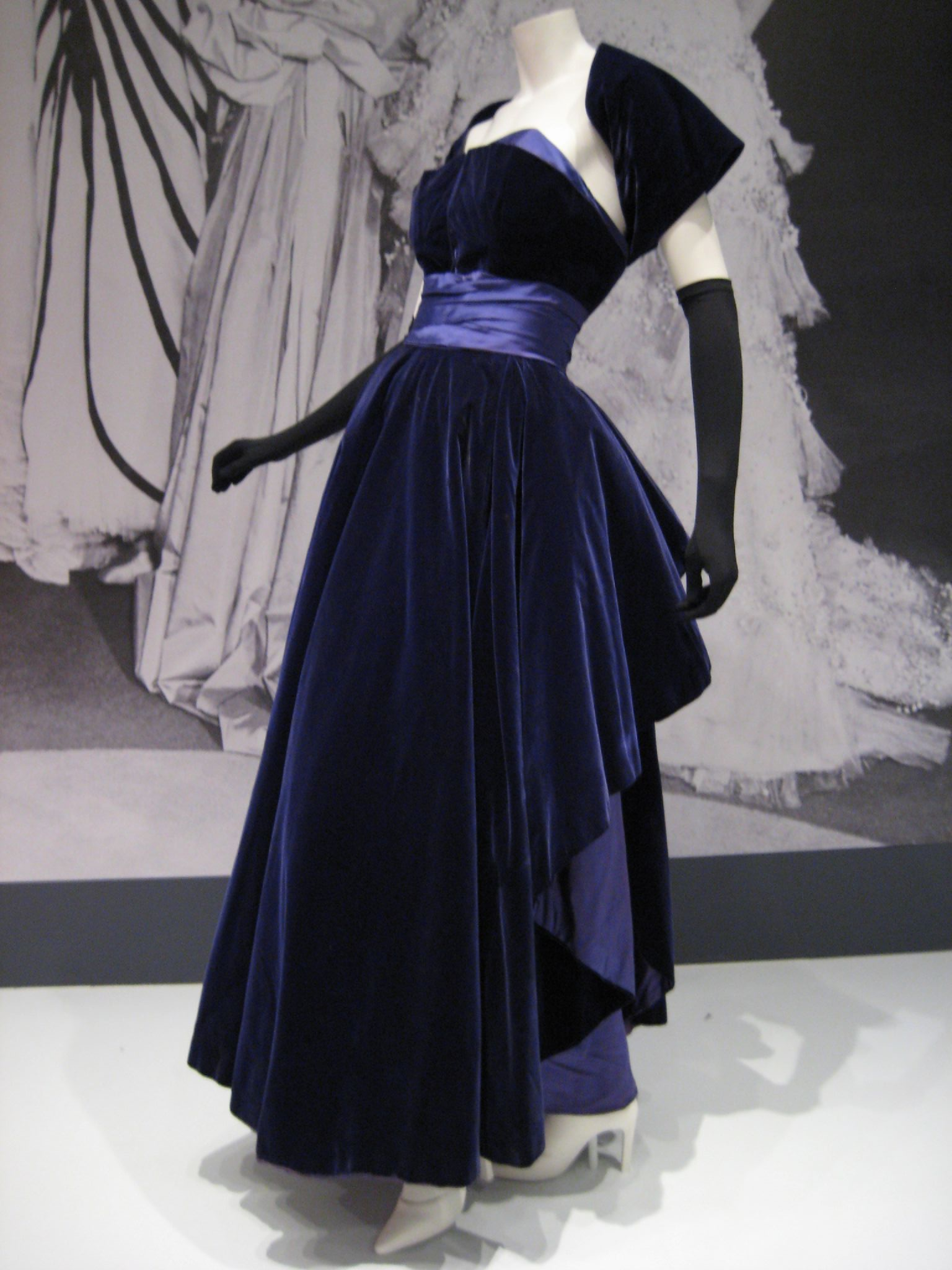 Christian Dior ballgown with matching shrug, silk velvet and silk satin, at the Indianapolis Museum of Art. The Museum website dates this dress to 1948, but also says it was from last collection before Dior's death in 1957.